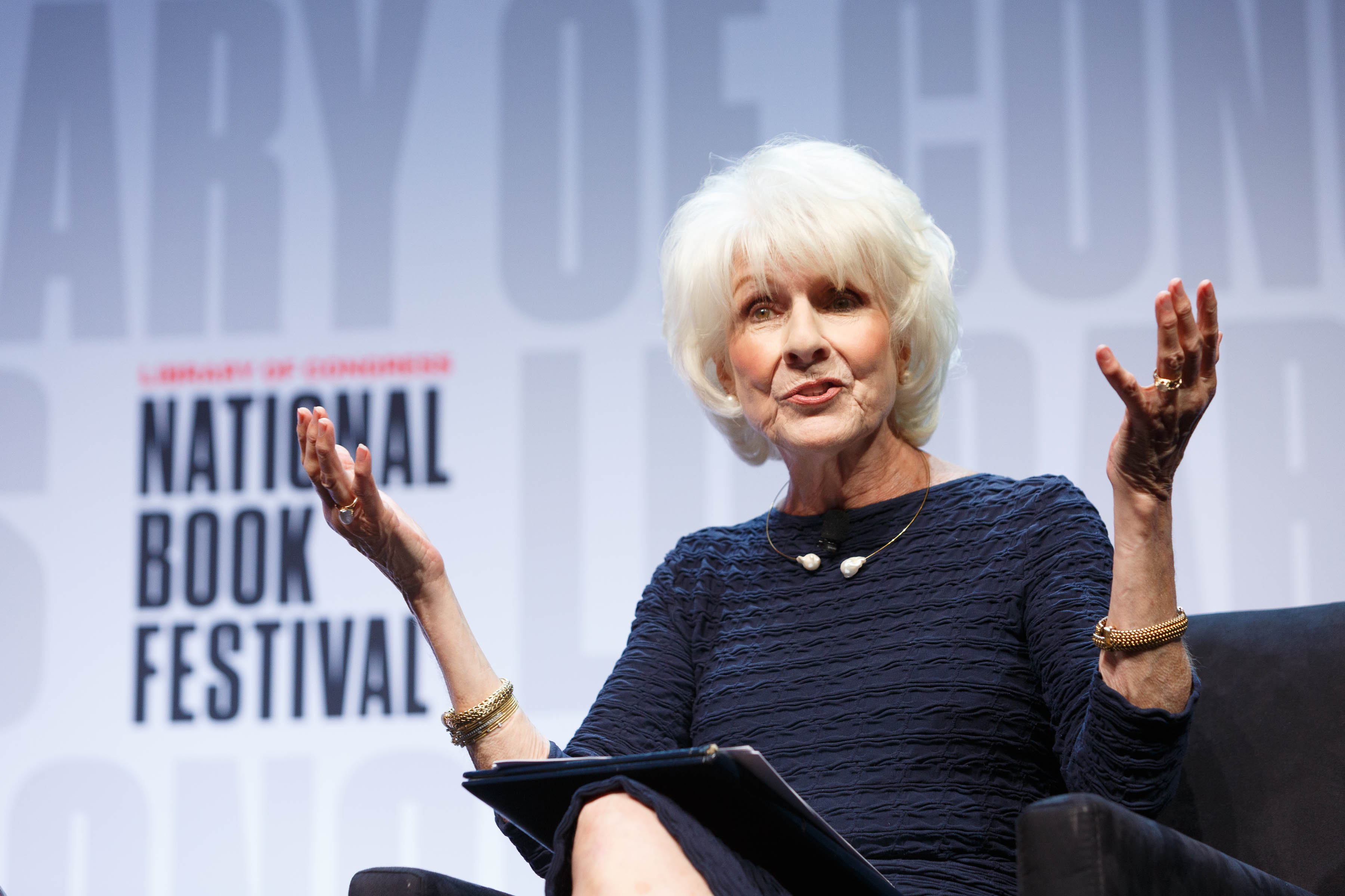 Diane Rehm interviews José Andres on the Main Stage at the National Book Festival, August 31, 2019. Photo by Shawn Miller/Library of Congress. Note: Privacy and publicity rights for individuals depicted may apply.